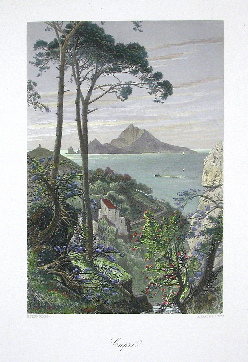 Capri, steel engraving, 12 1/2 inches by 9 1/2 inches.